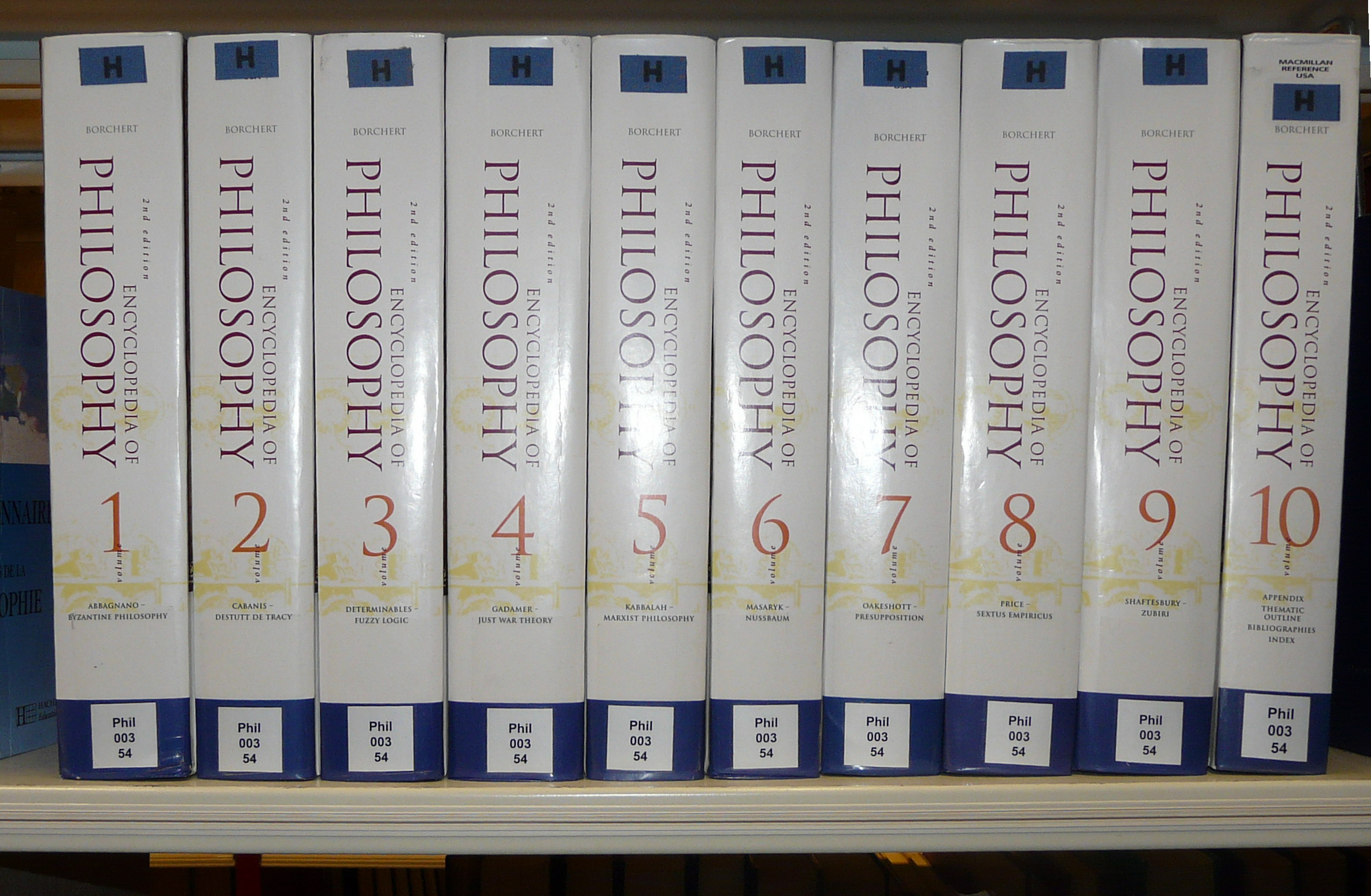 Book covers: Encyclopedia of Philosophy, ed. Borchert, 10 vols.